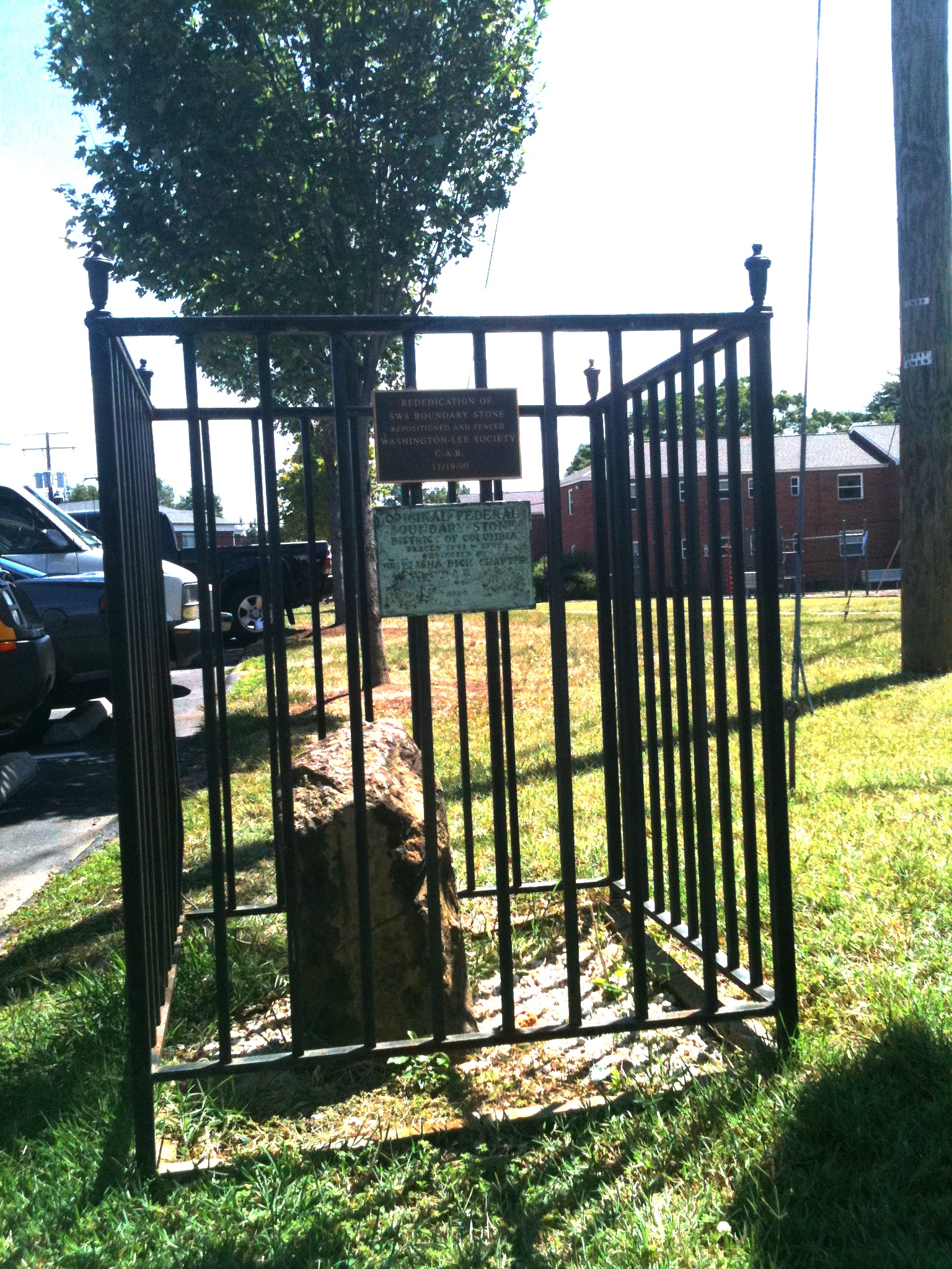 Southwest No. 8 Boundary Marker of the Original District of Columbia view showing location right off of apartment parking lot